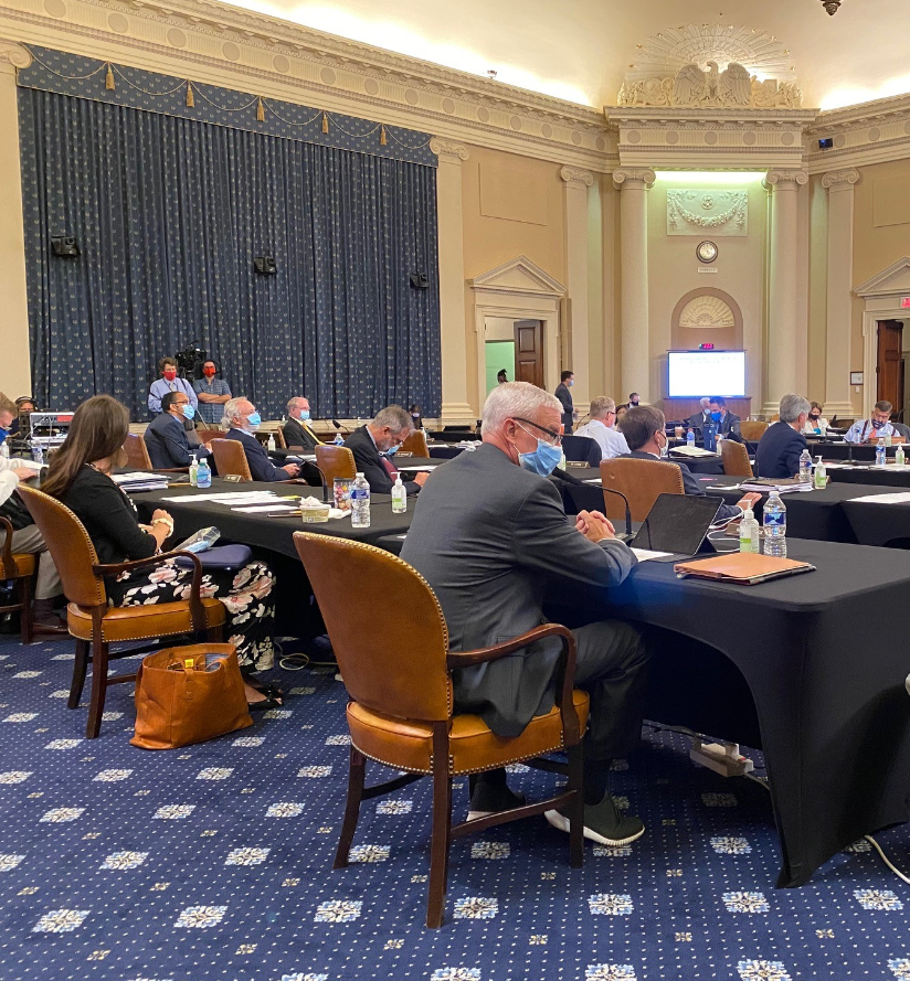 I hope my colleagues on the other side will recommit to the terms of spending caps. I hope they will set aside the political posturing. And, I hope we can come together to both fund our nation’s needs and prioritize fiscal discipline.